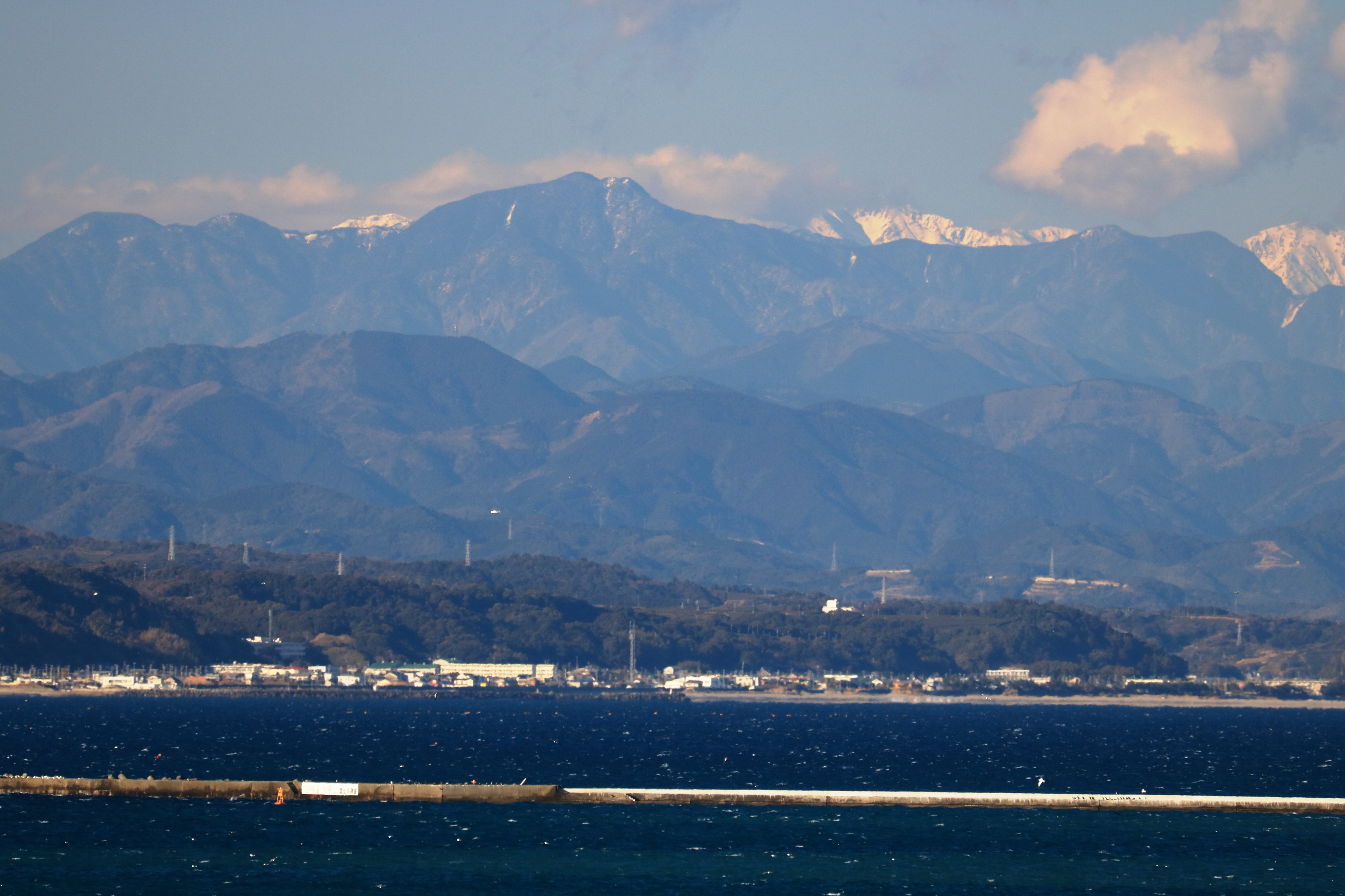 Mount Daimugen of Akaishi Mountains seen from Marine Park Omaezaki in Shizuoka Prefecture, Japan.